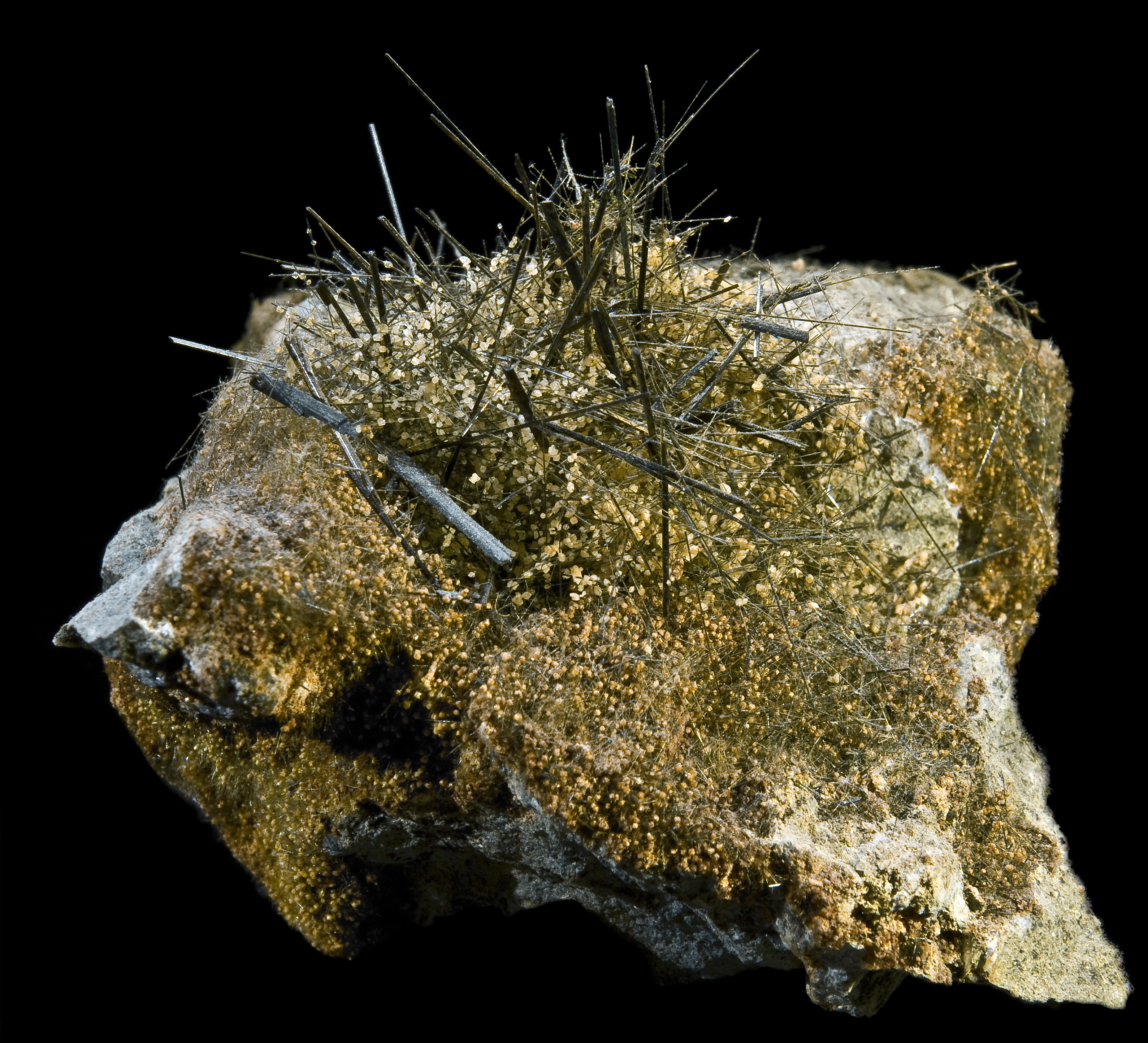 Actinolite (acicular form) with calcite Locality : Montijos Quarry, Monte Redondo, Leiria, Leiria District, Portugal. Size 8x7.5 cm